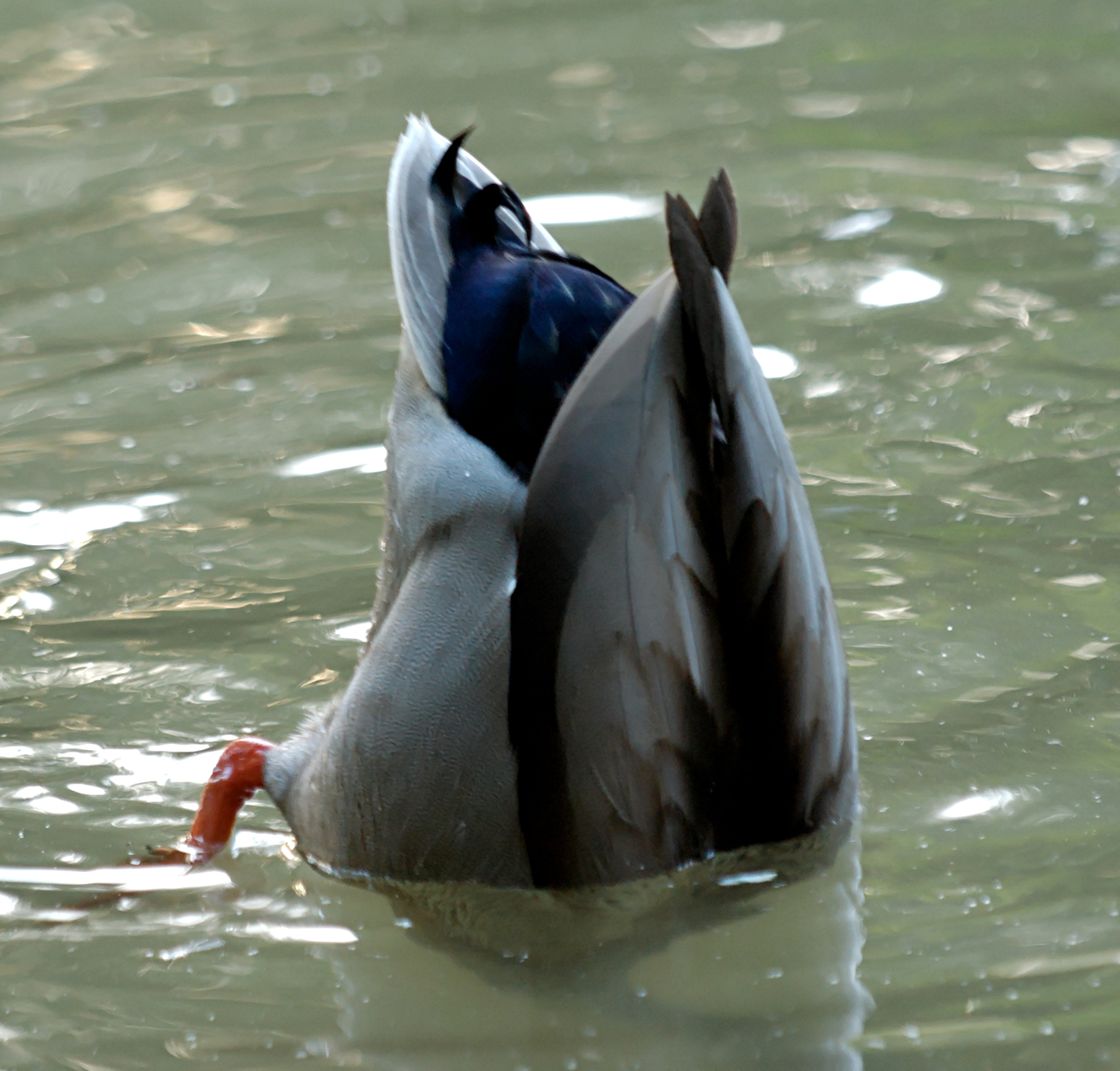 Mallard (Anas platyrhynchos) upending to search for food in a pond of the zoological garden of the Jardin des Plantes in Paris.